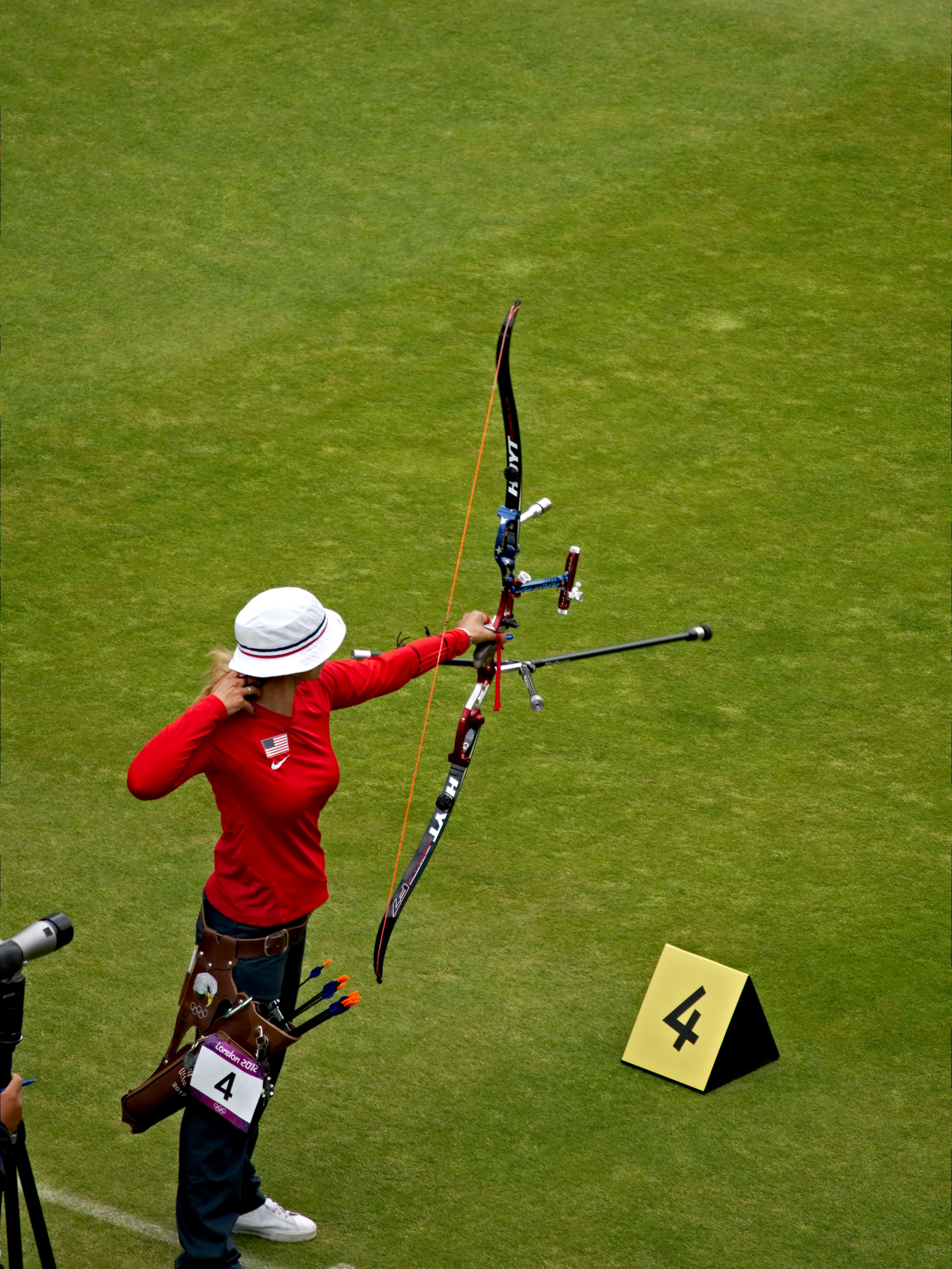 Khatuna Lorig shooting on the practice field at London 2012 Olympics